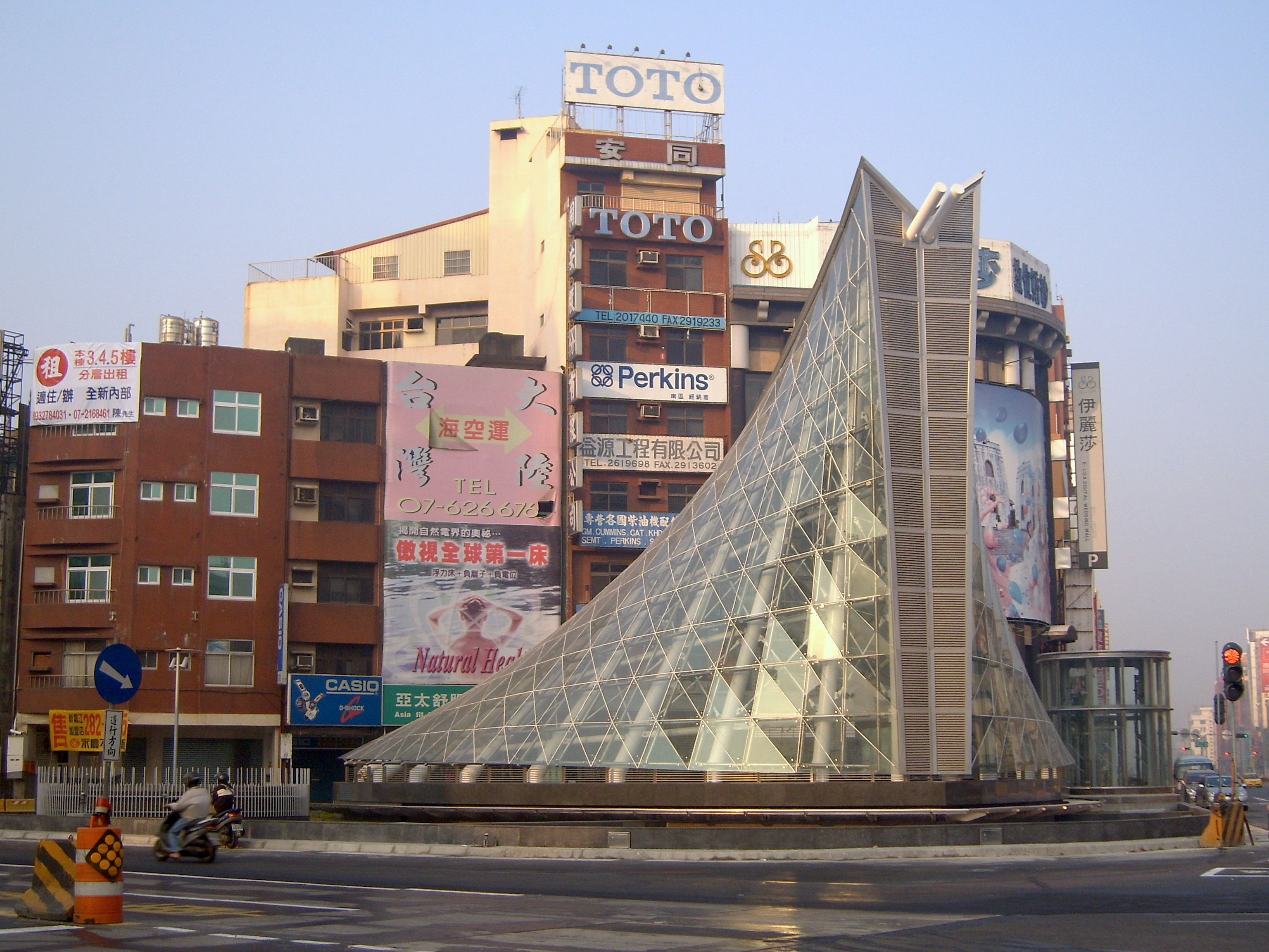 The landmark of Formosa Boulevard Station of Kaohsiung MRT.